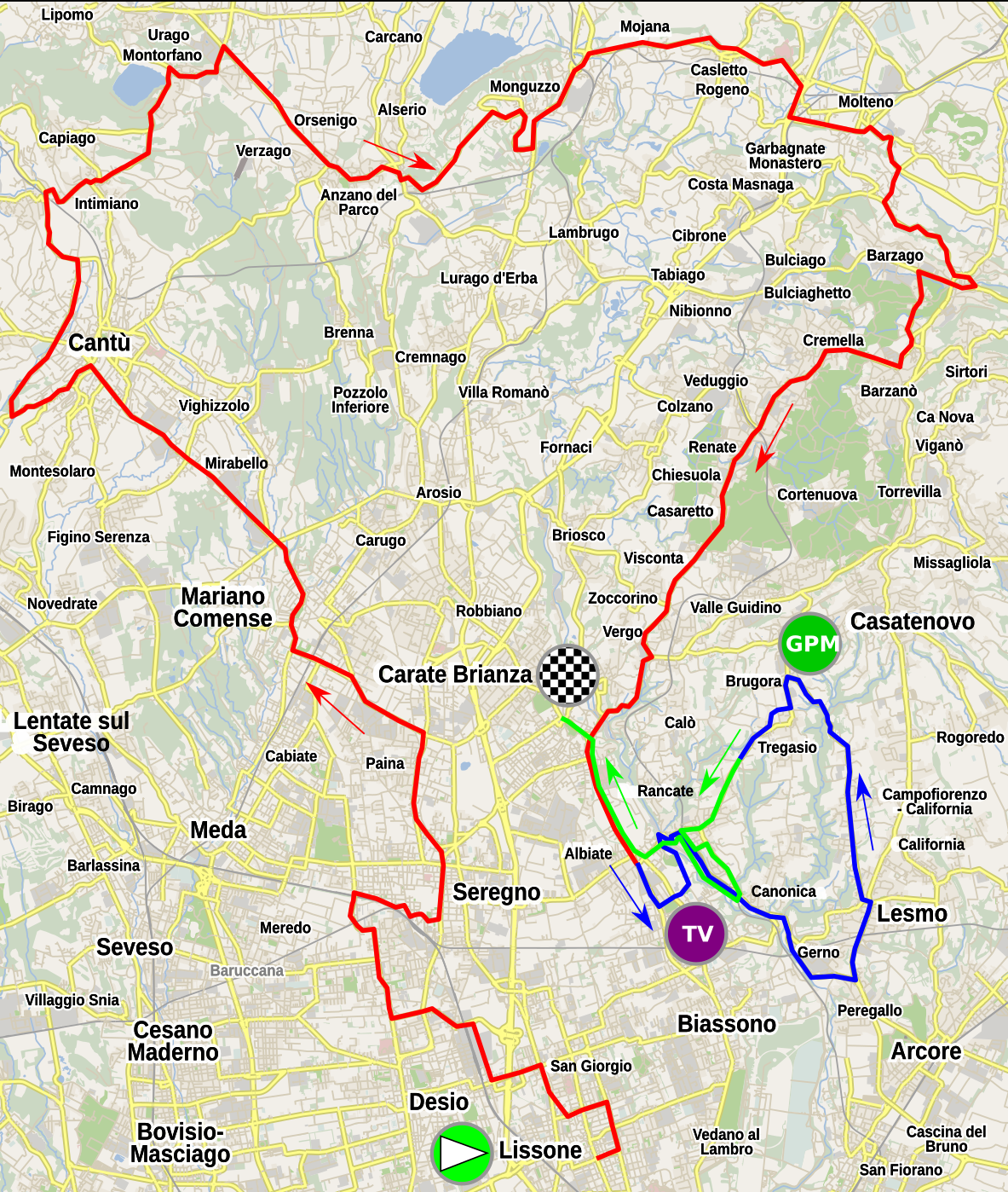 Map of stage 4 from Giro donne 2019